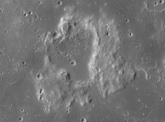 Crater Wolf (detail of LRO - WAC global moon mosaic; Mercator projection)